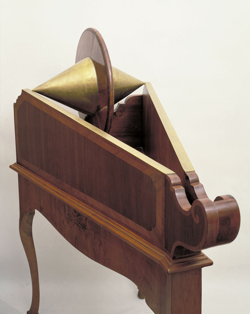 AuthorUnknownDescription